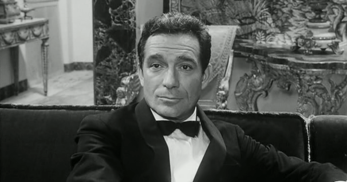 screenshot from the film Il magnifico cornuto